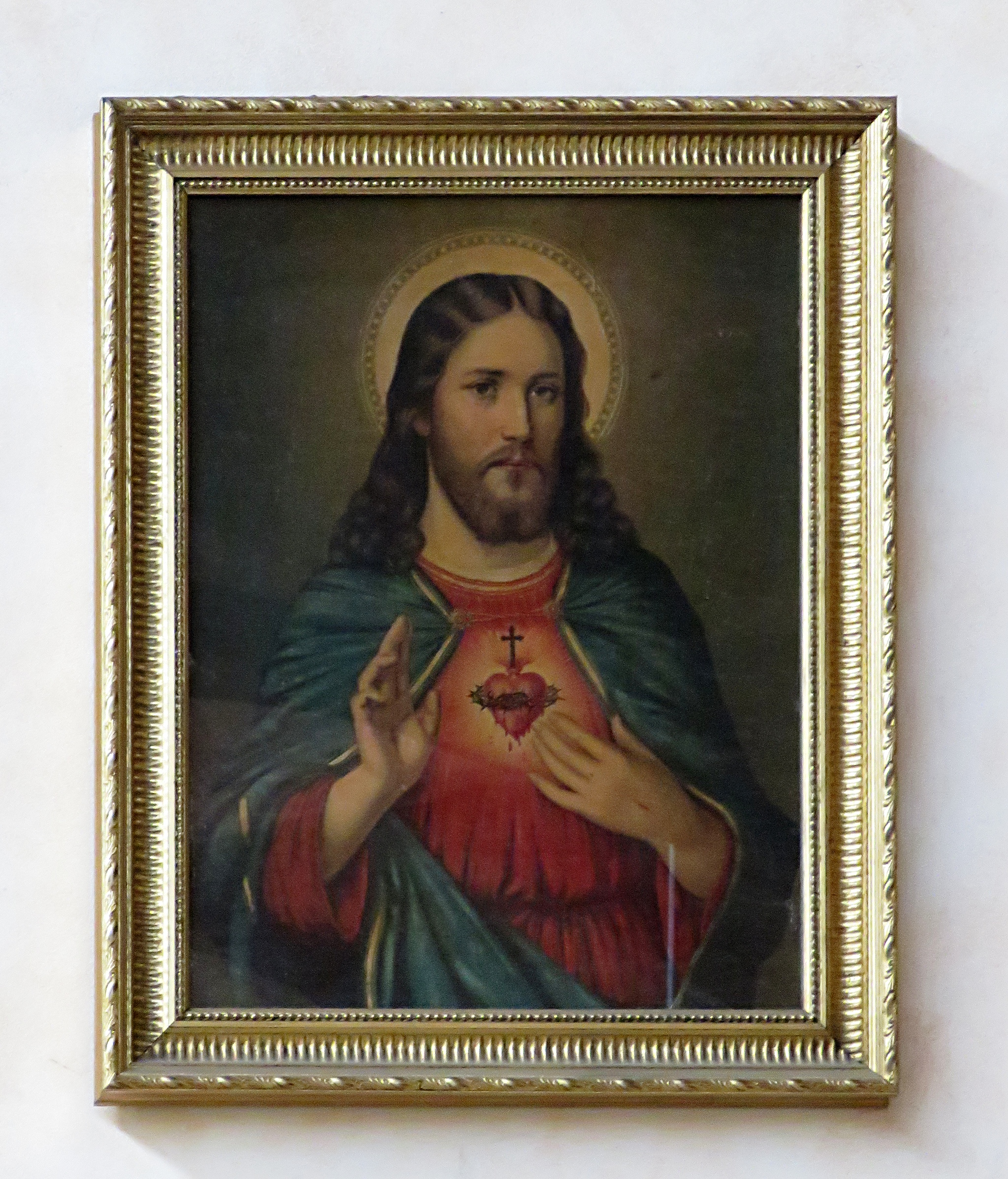 Sacred Heart painting (realized from 1900 to 1930). This is a photo of a monument which is part of cultural heritage of Italy.